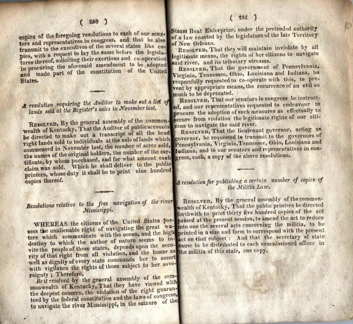 Resolution by 1817 Kentucky state legislature supporting free steamboat navigation of the Mississippi River.